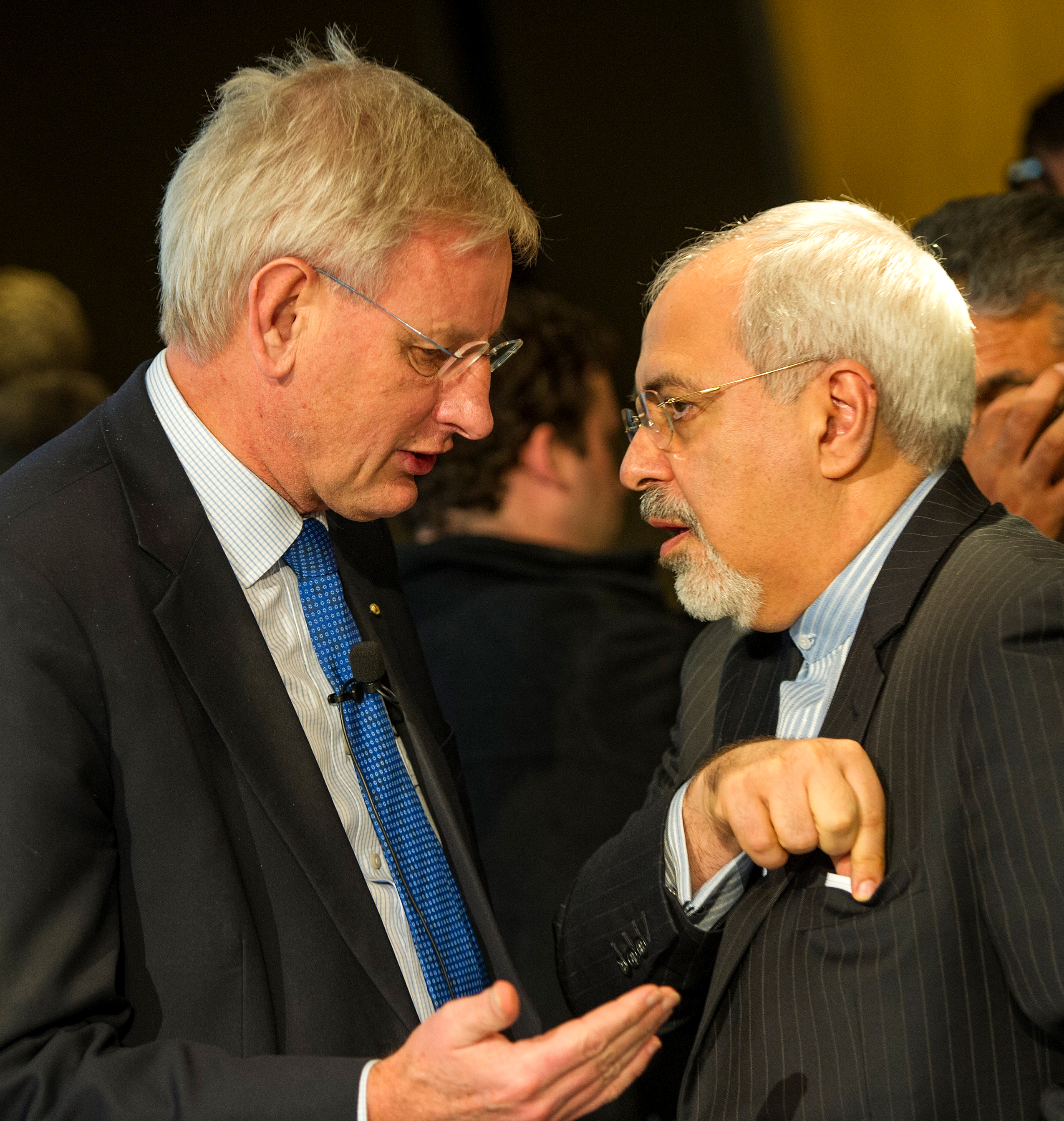 50th Munich Security Conference 2014: Carl Bildt and Mohamad Javad Zarif: Carl Bildt (Minister of Foreign Affairs, Kingdom of Sweden) and Mohamad Javad Zarif (Minister of Foreign Affairs, Islamic Republic of Iran).